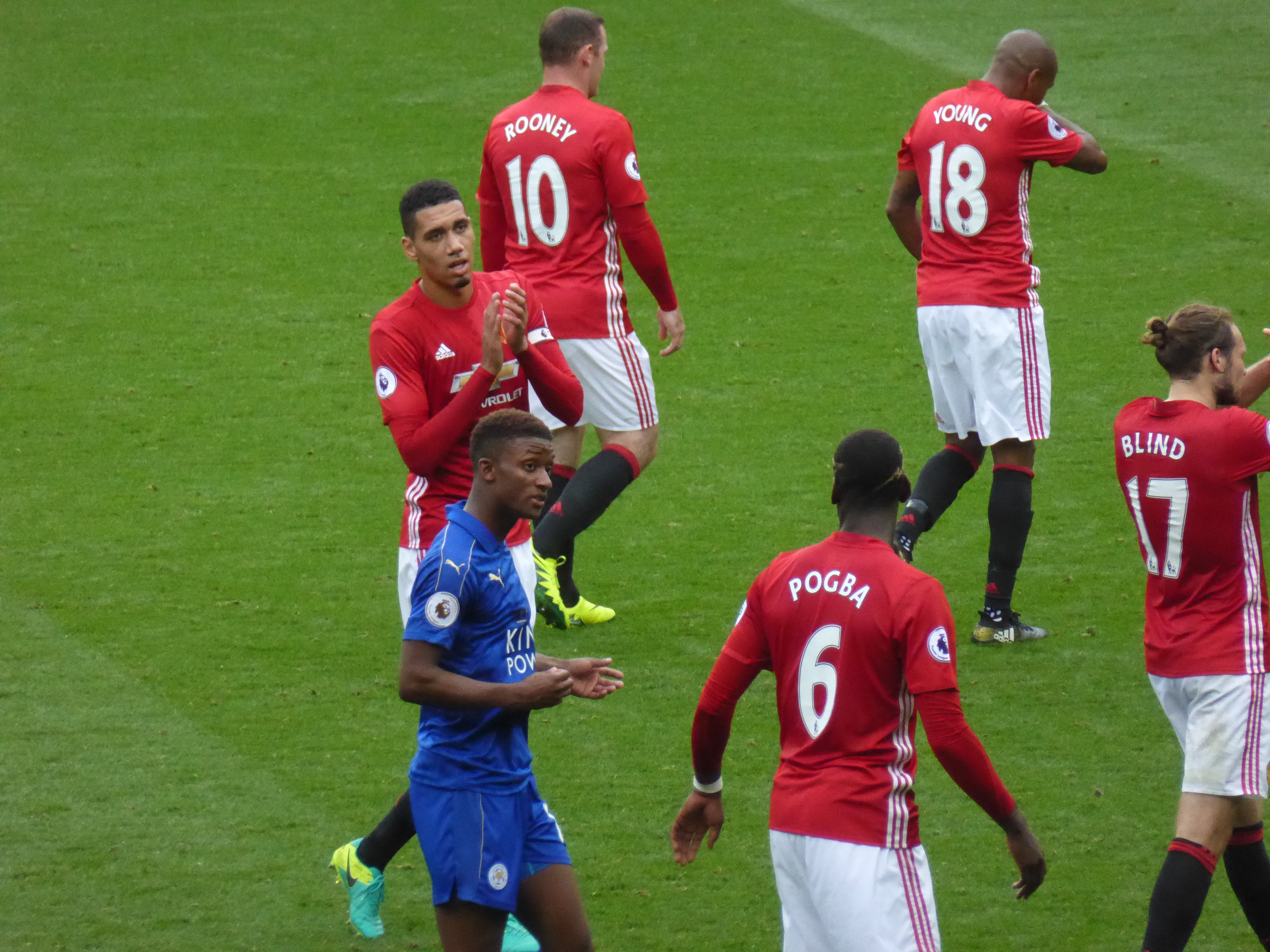 Manchester United v Leicester City (4-1), Old Trafford, Manchester, Greater Manchester, England, September 2016